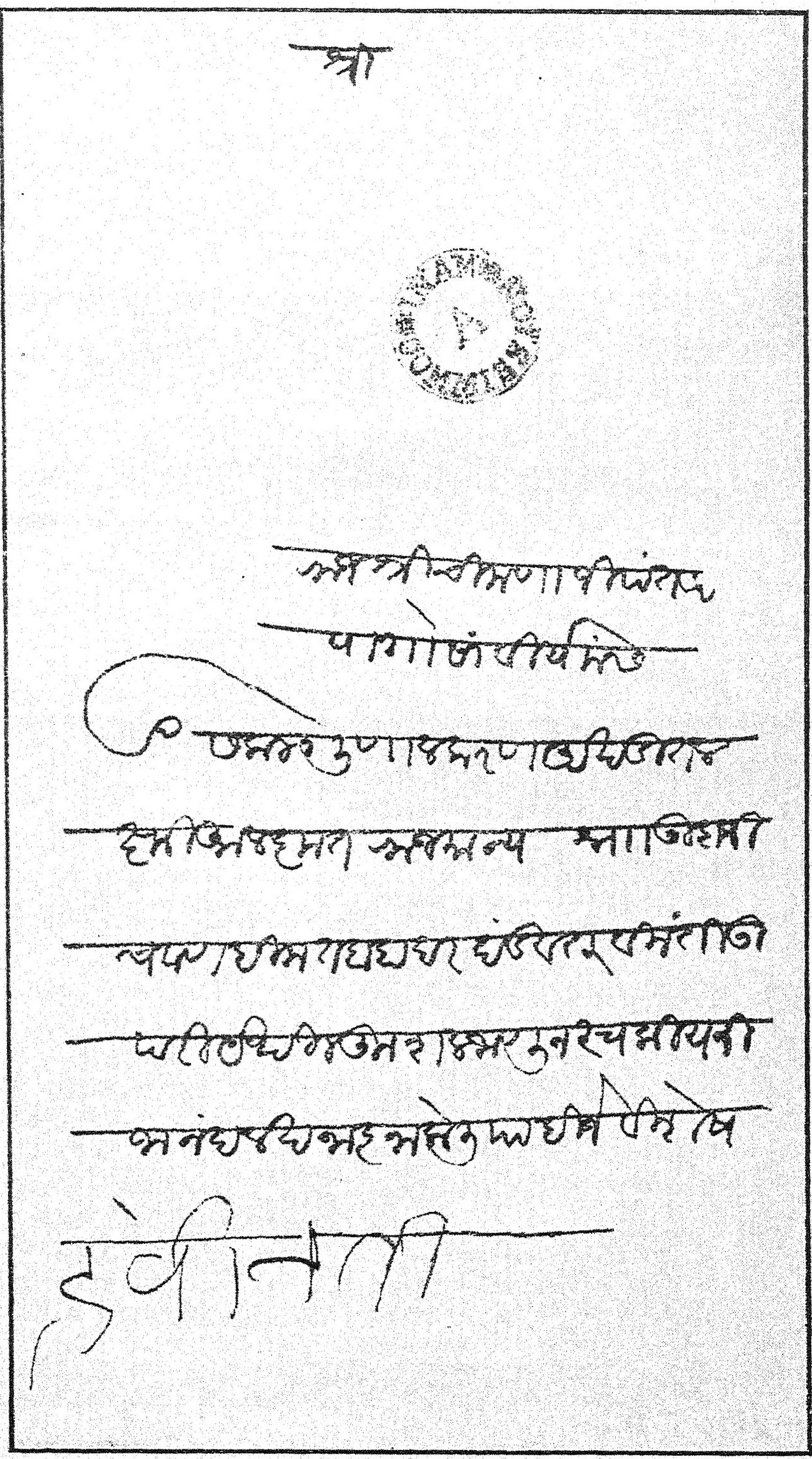 Facsimile of the handwriting of Udaji Chavan